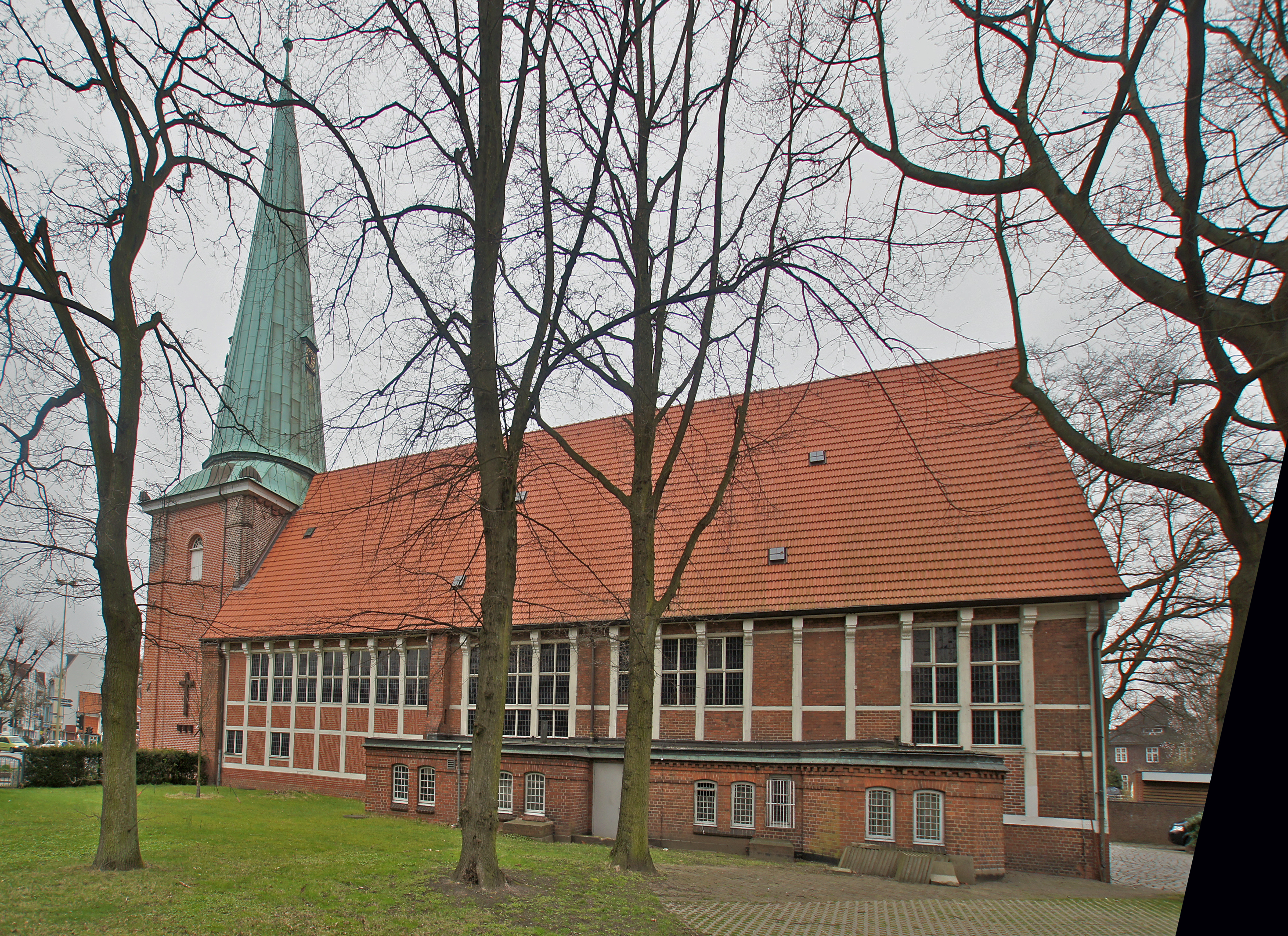 Hamburg (Eppendorf), Germany: Saint John's Church